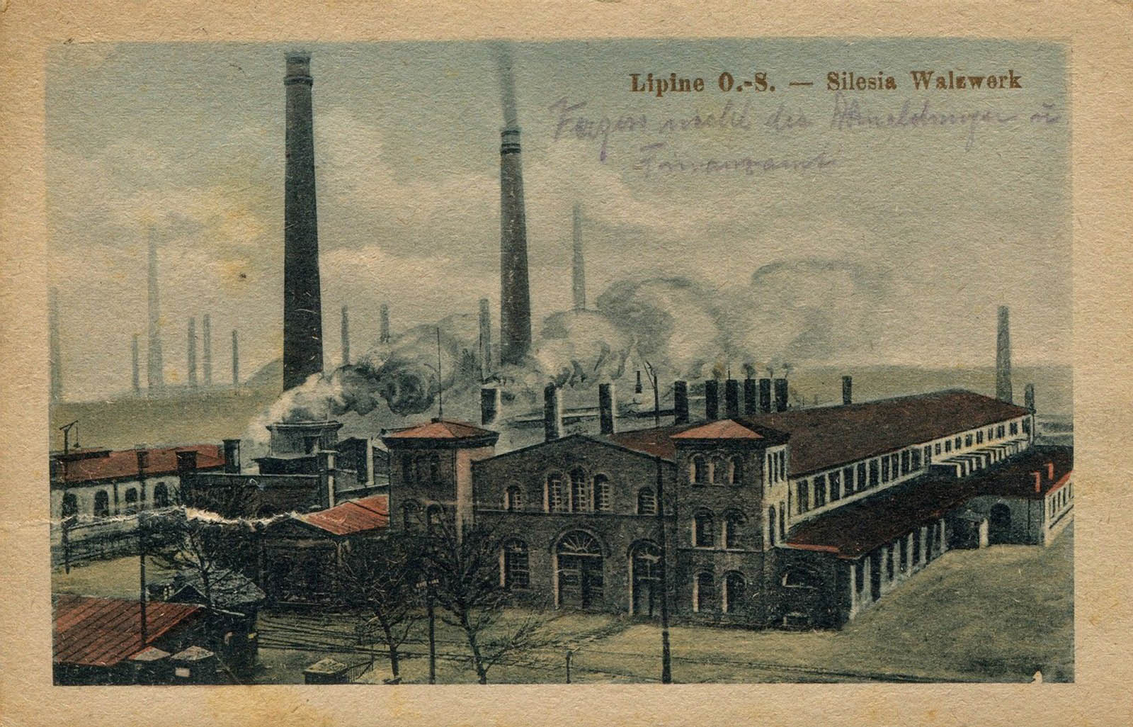 A postcard of Silesia Zinc Rolling Mill Factory in Lipiny, Świętochłowice, Upper Silesia, Poland, ca. 1910.